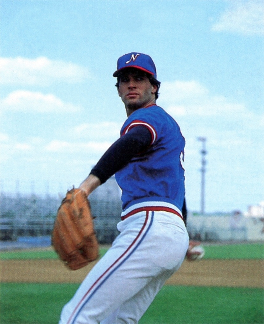 Pitcher Scott Patterson of the 1983 Nashville Sounds Minor League Baseball team of the Southern League